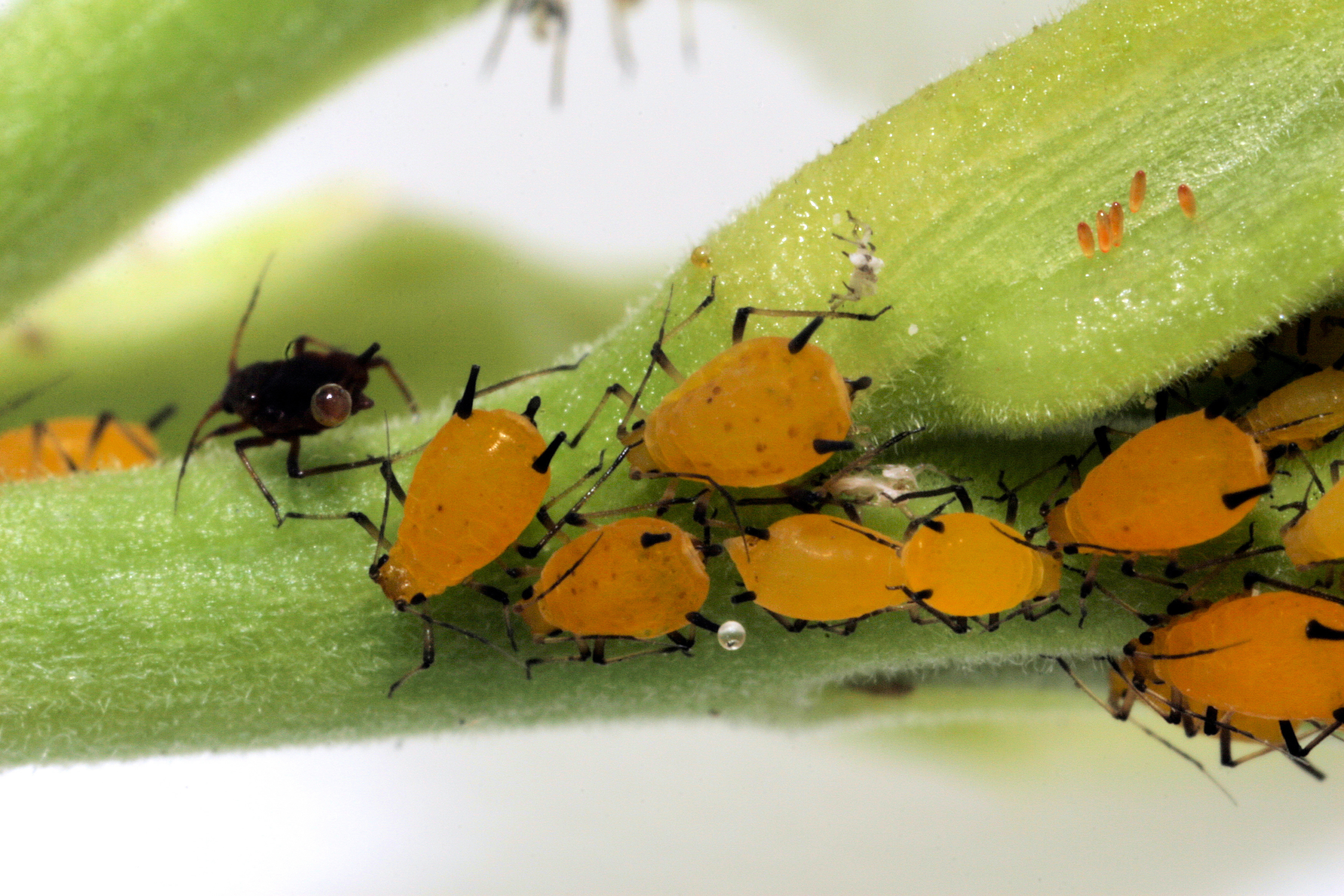 Extreme closeup picture of an Aphid colony. The Aphid eggs are seen to the right.